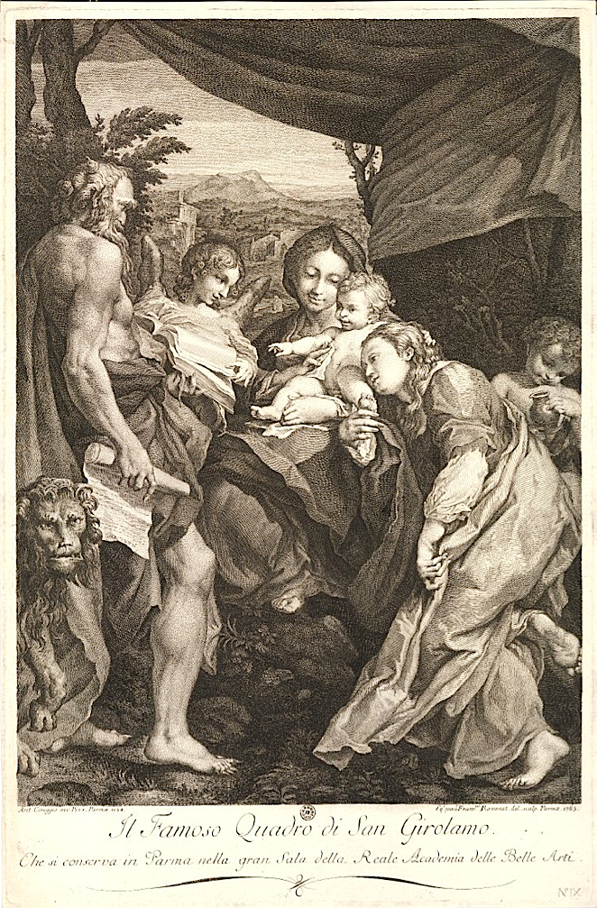 Famoso Quadro di San Girolamo, by Simon François Ravenet II, after Correggio — Number IX, from the serie commissionned by Ferdinand, Duke of Parma in 1778.